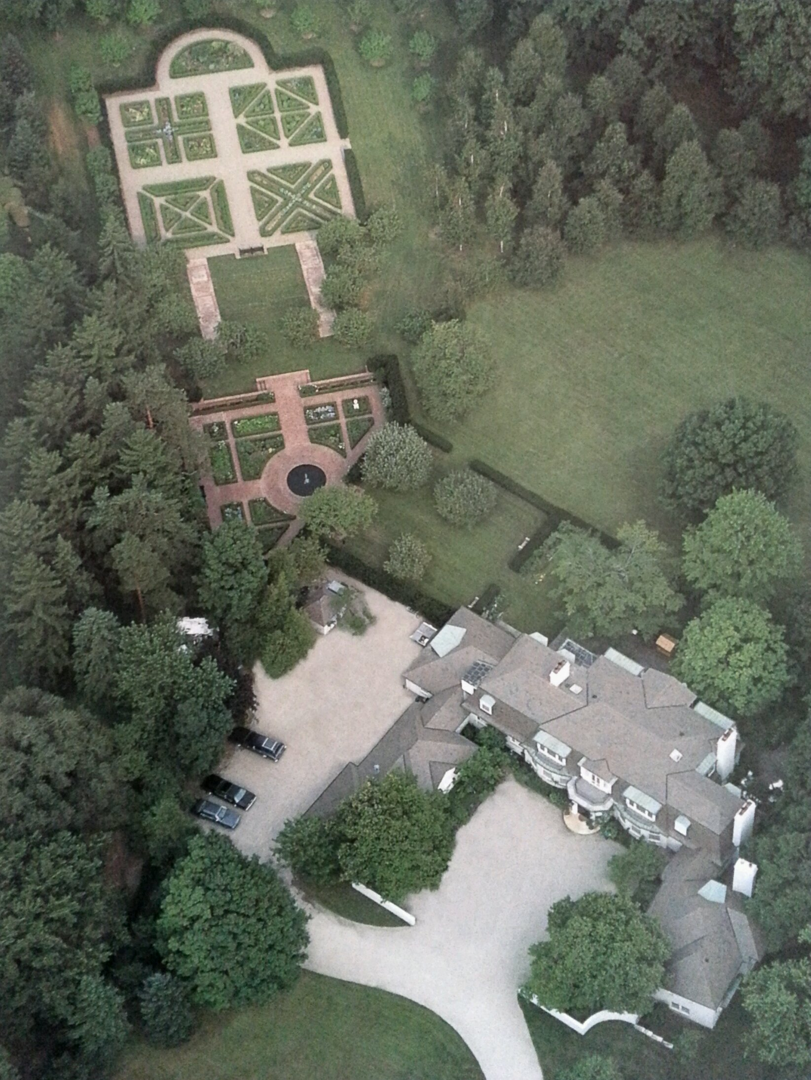 Hugh T. Keyes house on Vaughan Rd. in Bloomfield Hills, Michigan